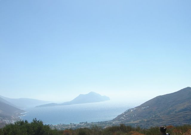 Nikoura Island, N of Amorgos, Cyclades, Greece